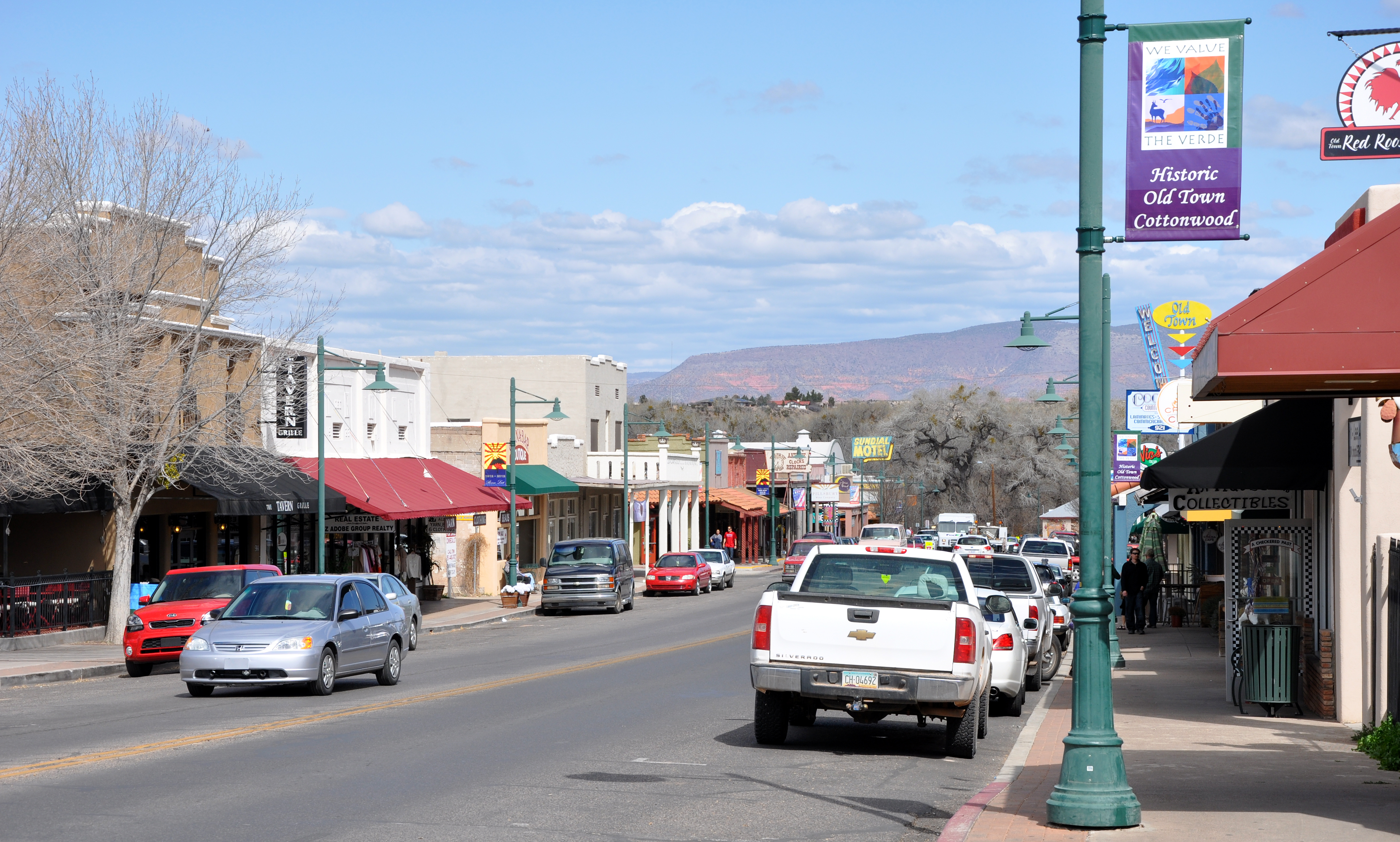 Commercial Historic District in Cottonwood, Arizona|Cottonwood — in Yavapai County, Arizona.